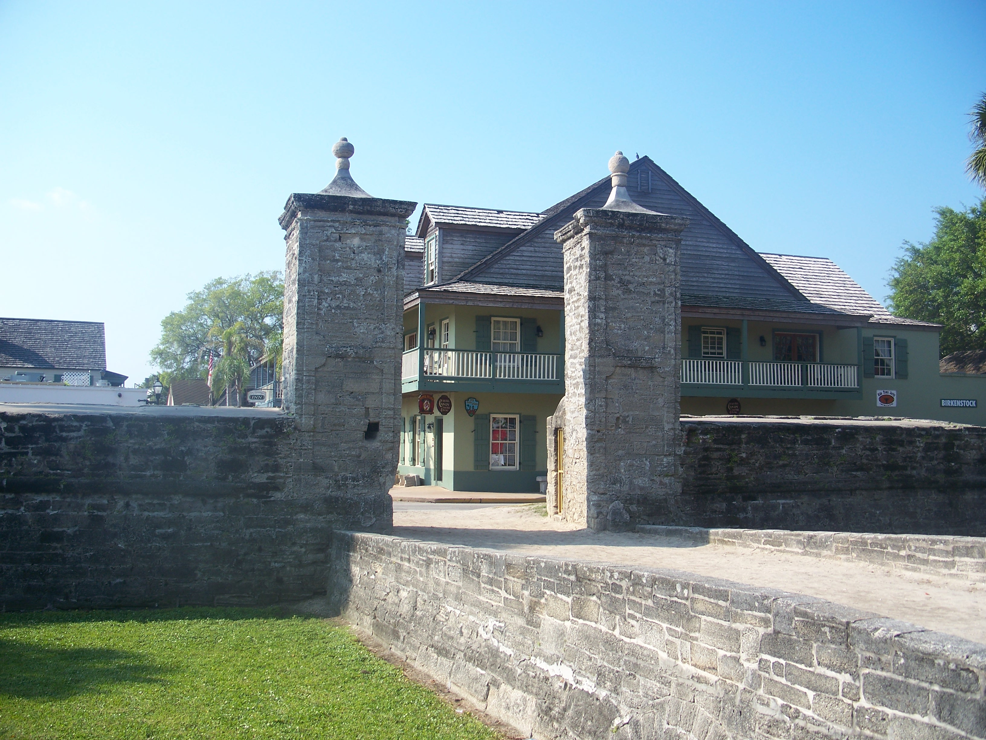 St. Augustine, Florida: Old city gates